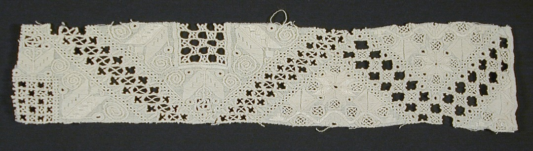 Italy, 1550-1632 Textiles; fragments Linen cutwork 'punto tagliato' with linen embroidery (satin stitch) edged with linen reticello needle lace Gift of Miss Beatrice Wood (60.41.72) Costume and Textiles